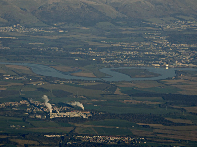 Plean, Cowie and the River Forth from the air